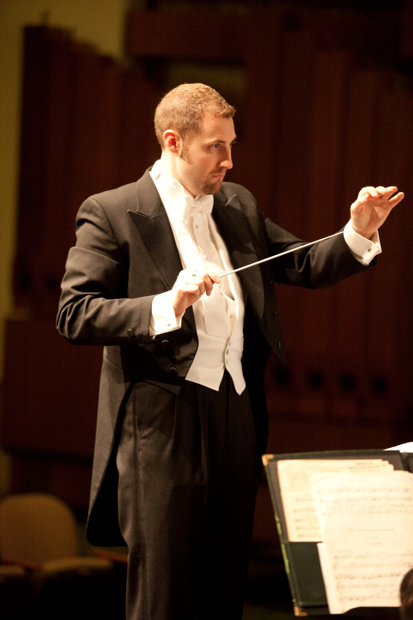 Andrew Neer conducts the Wayne State University Concert Band in April, 2011.